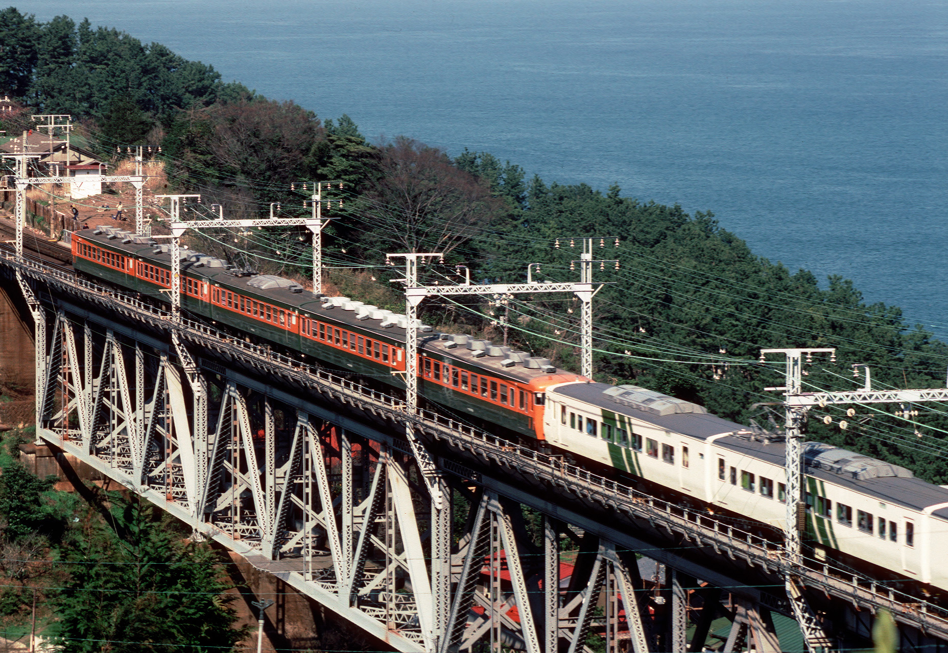 Japanese National Railways 153 series EMU with the connection of 185 series one on the express Izu service, running between Nebukawa and Manazuru in Tokaido main line.